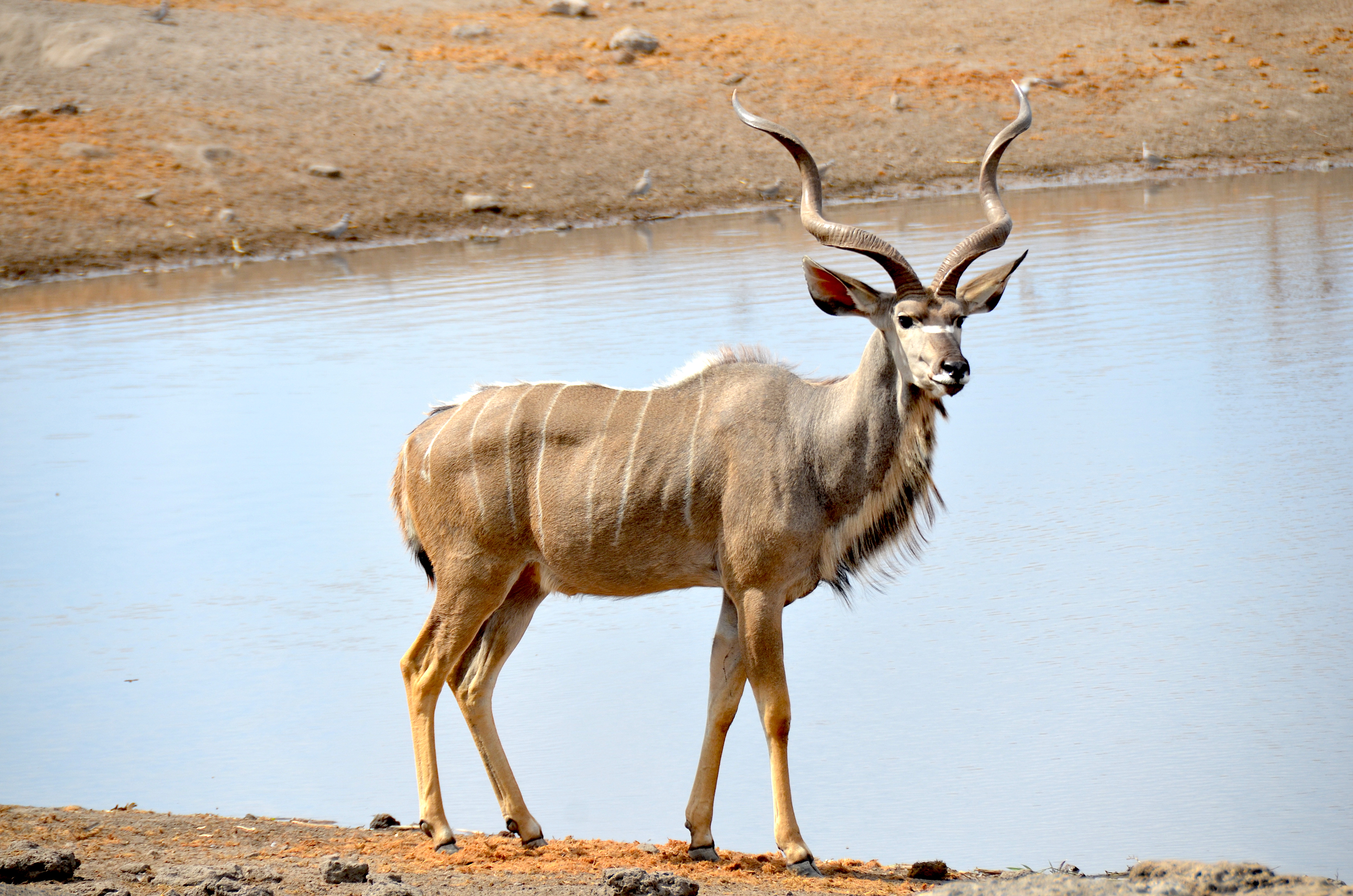 Greater kudu at Chudop waterhole